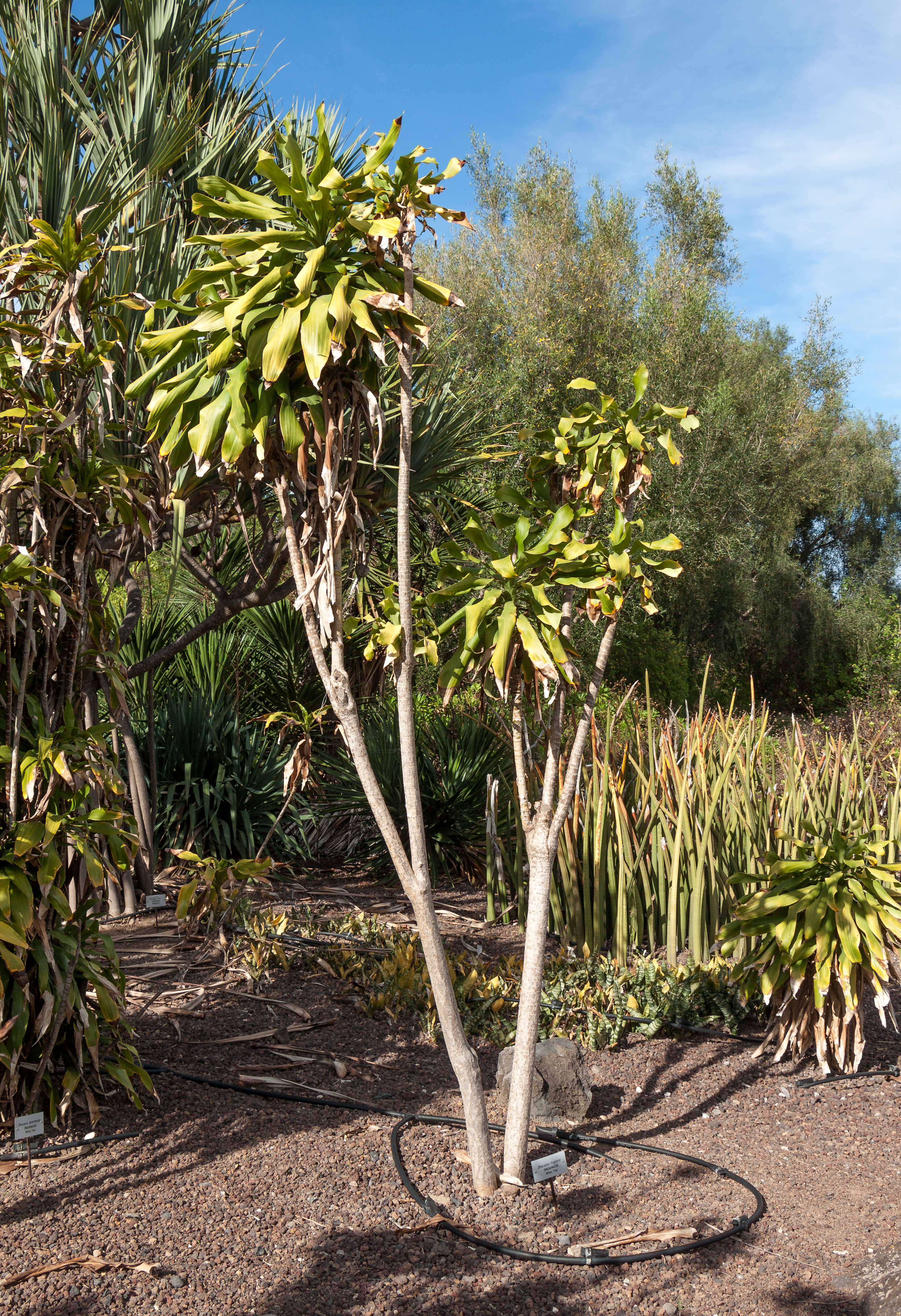 Dracaena fragrans (L.) Ker Gawl., Cornstalk Dracaena; Habitus; Jardín Botánico Canario Viera y Clavijo, Gran Canaria, Canary Islands, Spain.